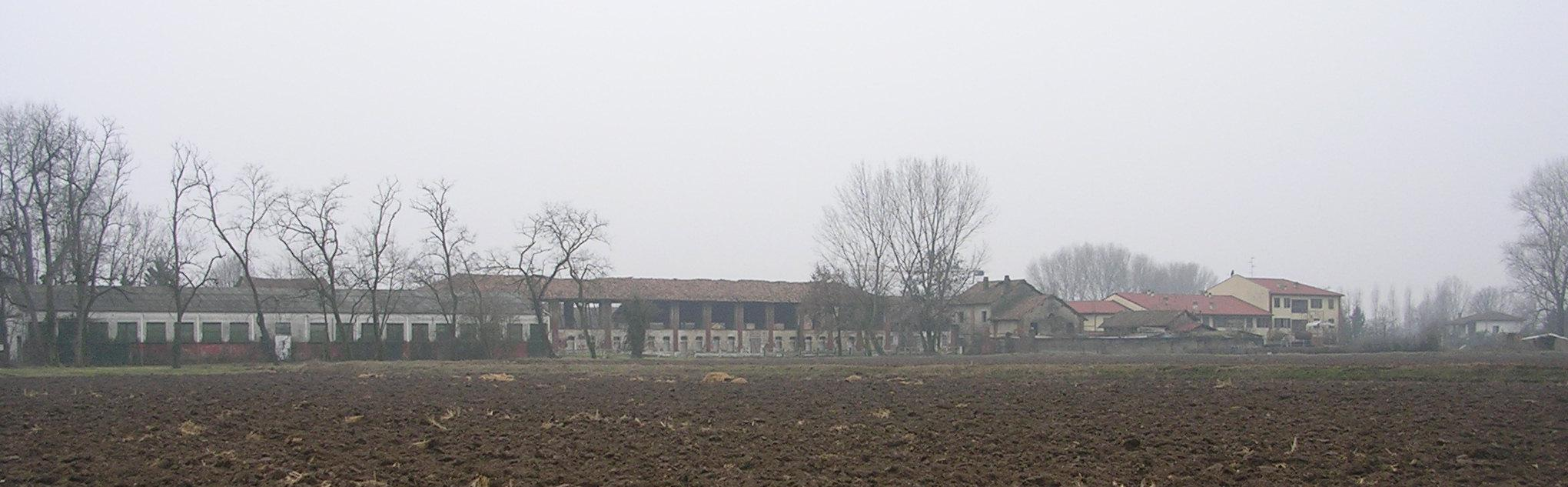 Panorama of Gudo Gambaredo